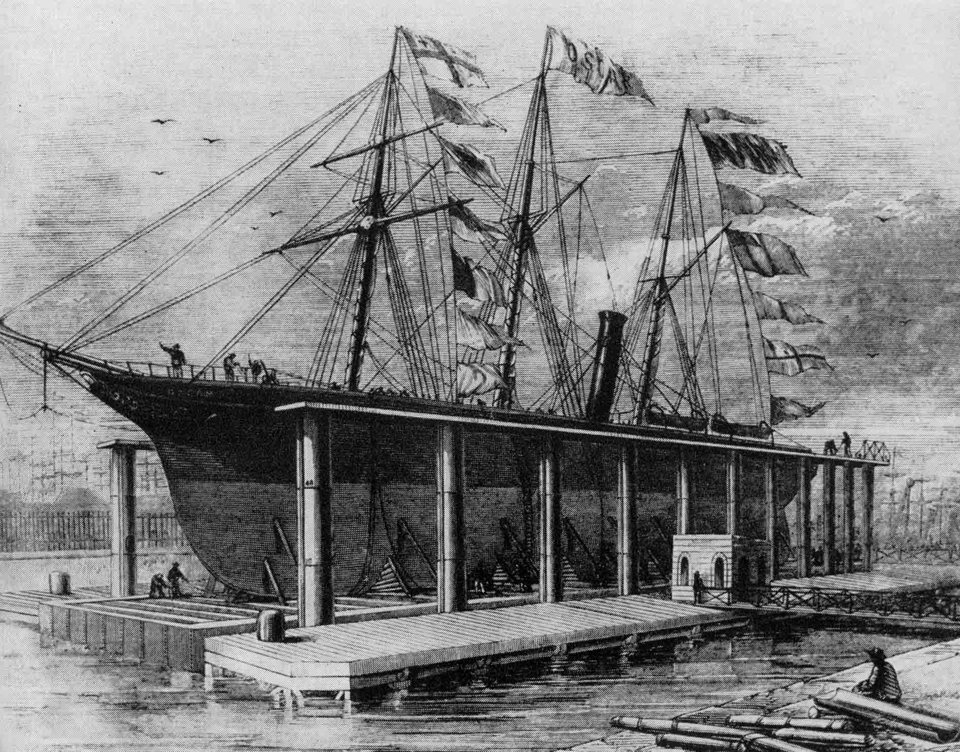 Engraving of ship in docks, showing hydraulic lifting machinery